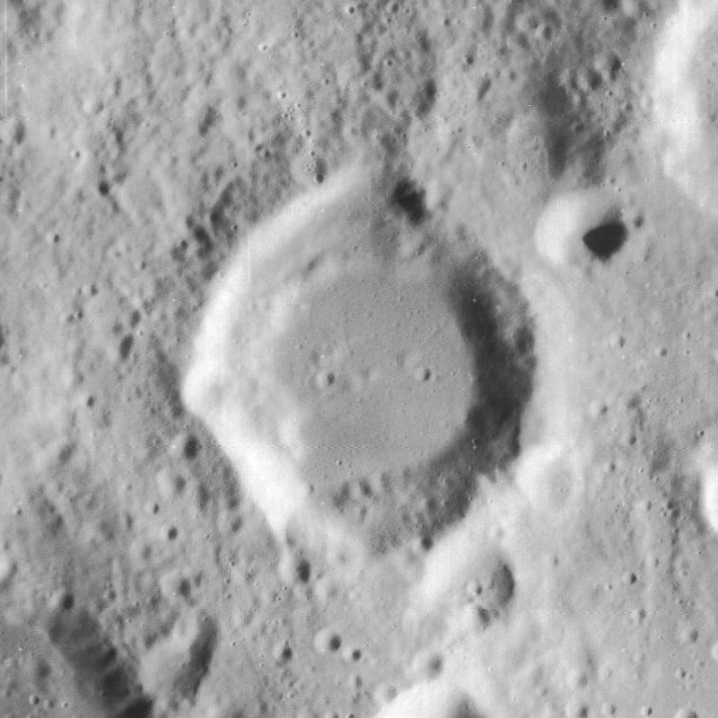 Haidinger, on the moon. North is to upper right.